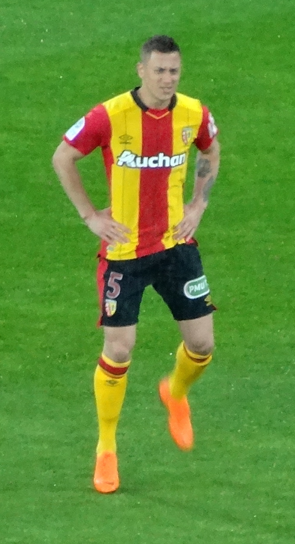 Alex Gersbach (RC Lens)